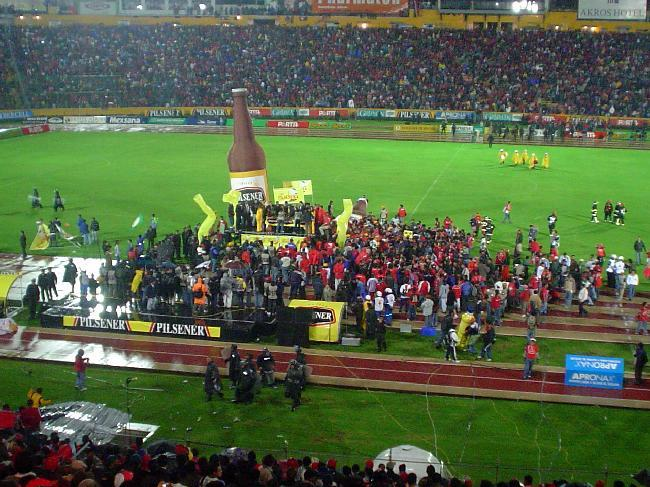 CD El Nacional de Quito won the 2005 Ecuadorian League at its home stadium, Olímpico Atahualpa de Quito. -December 2005